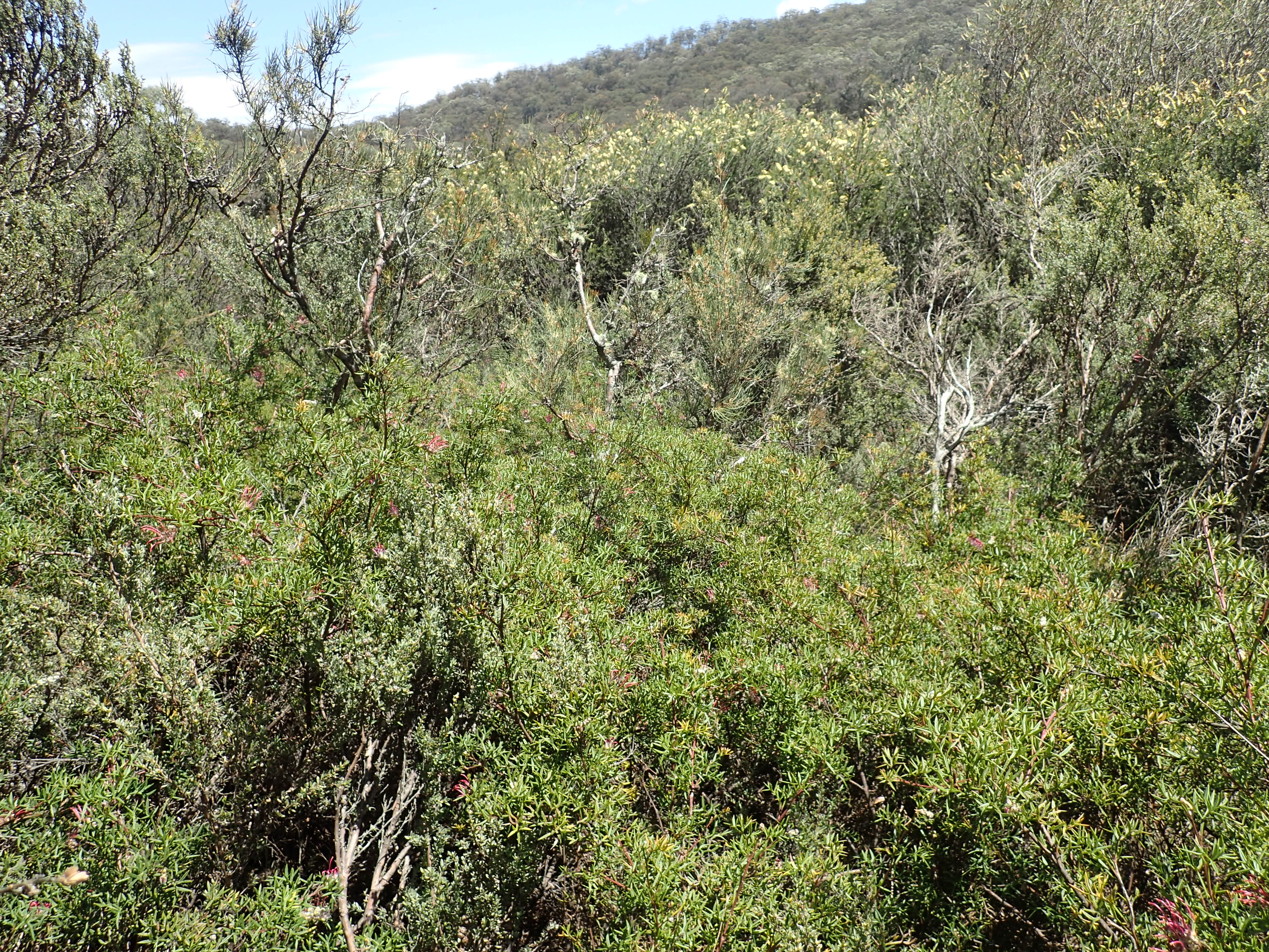 Grevillea acanthifolia subsp. stenomera growing near New England National Park